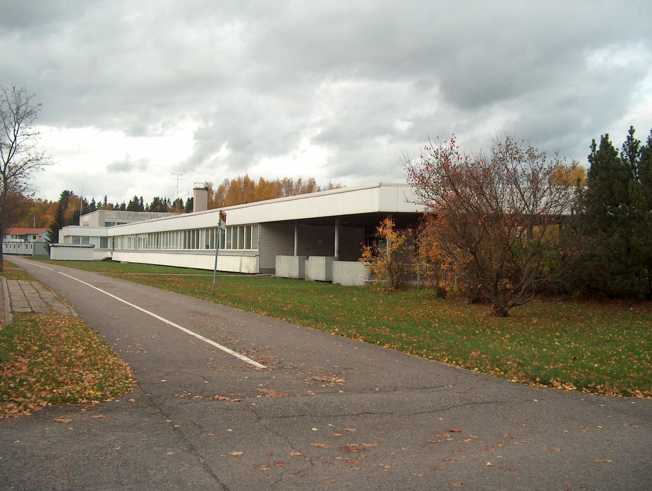 The Jaakkola School in Kerava, Finland